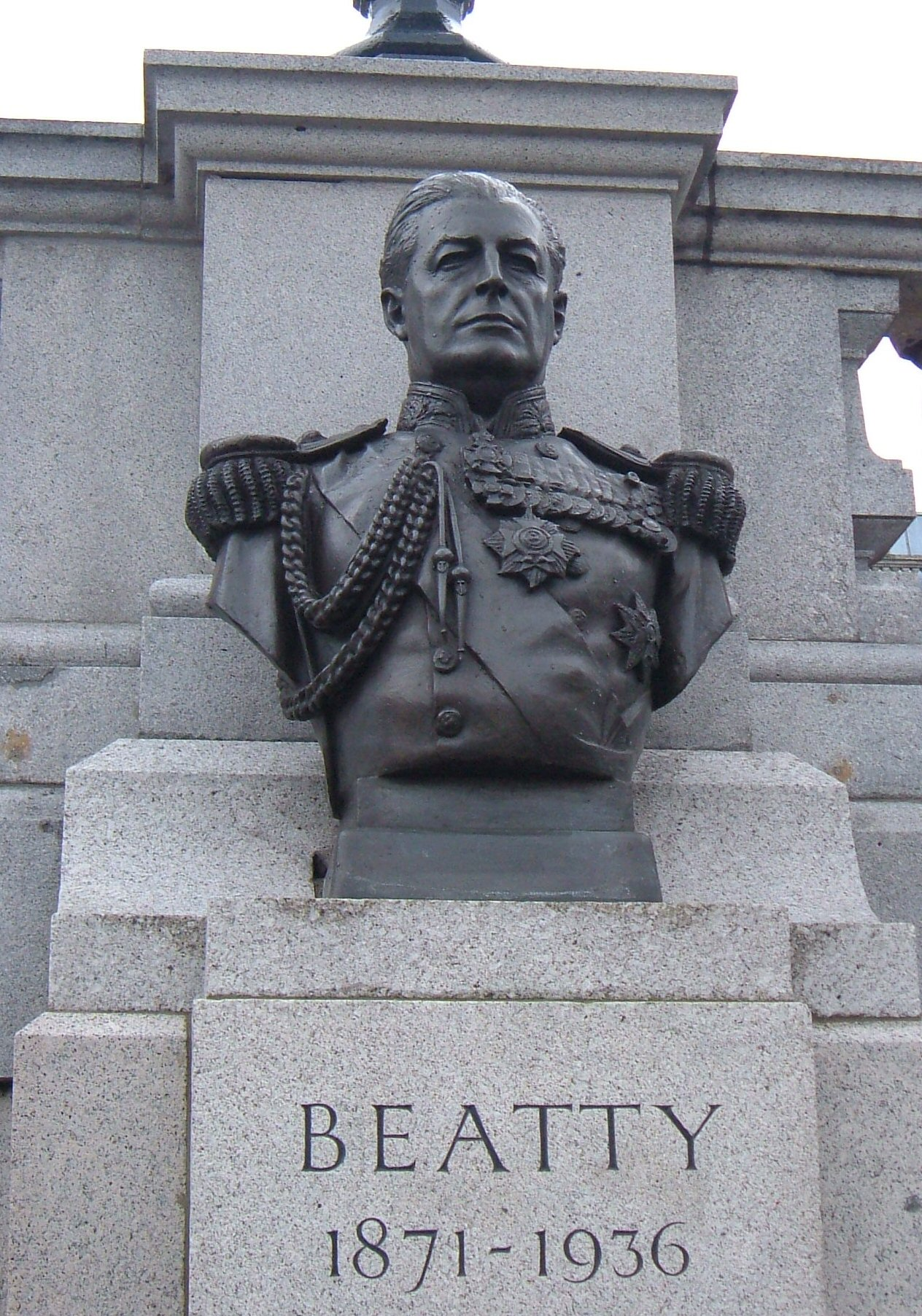 Bust of Admiral of the Fleet Earl Beatty in Trafalgar Square, London, England by William McMillan (1887-1977)